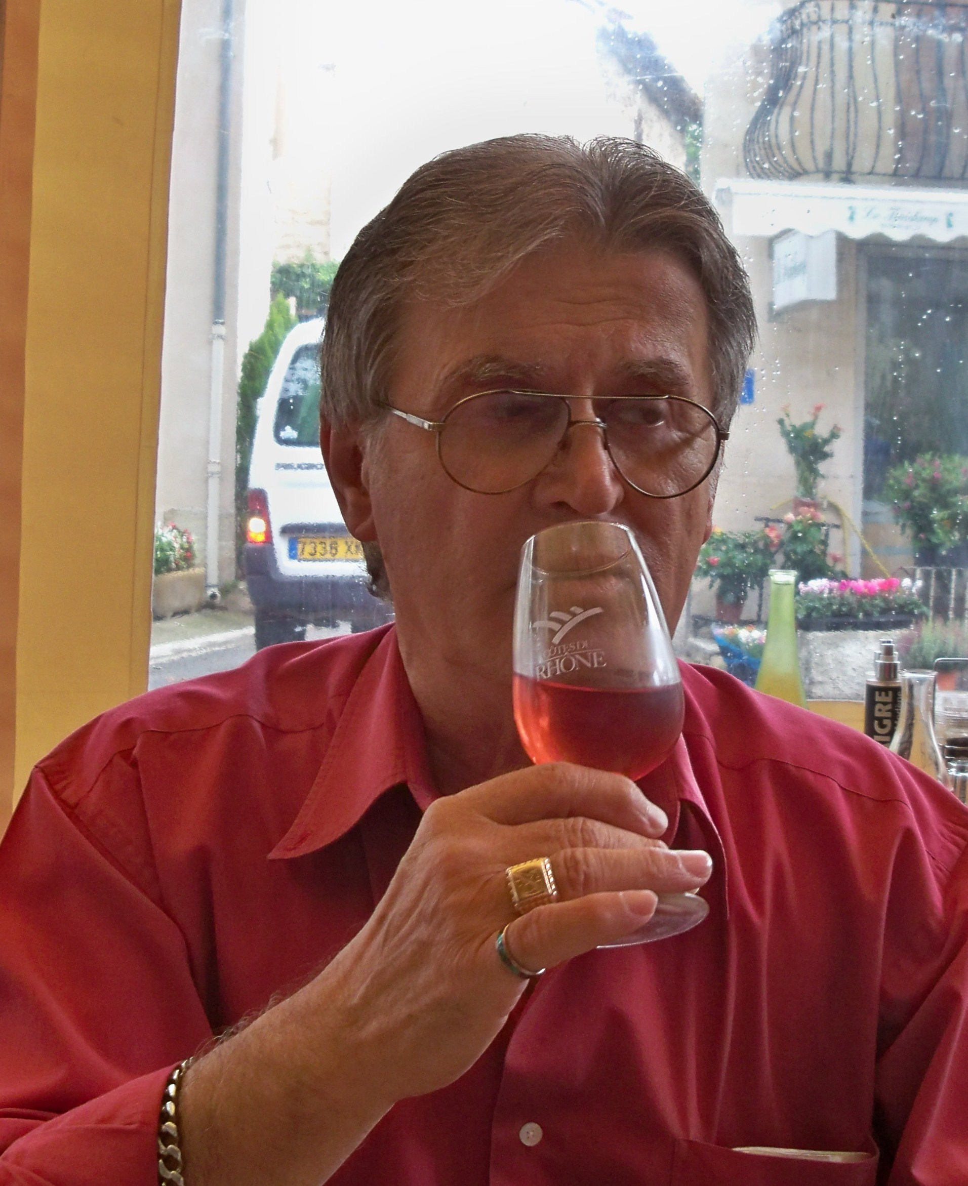 wine tasting